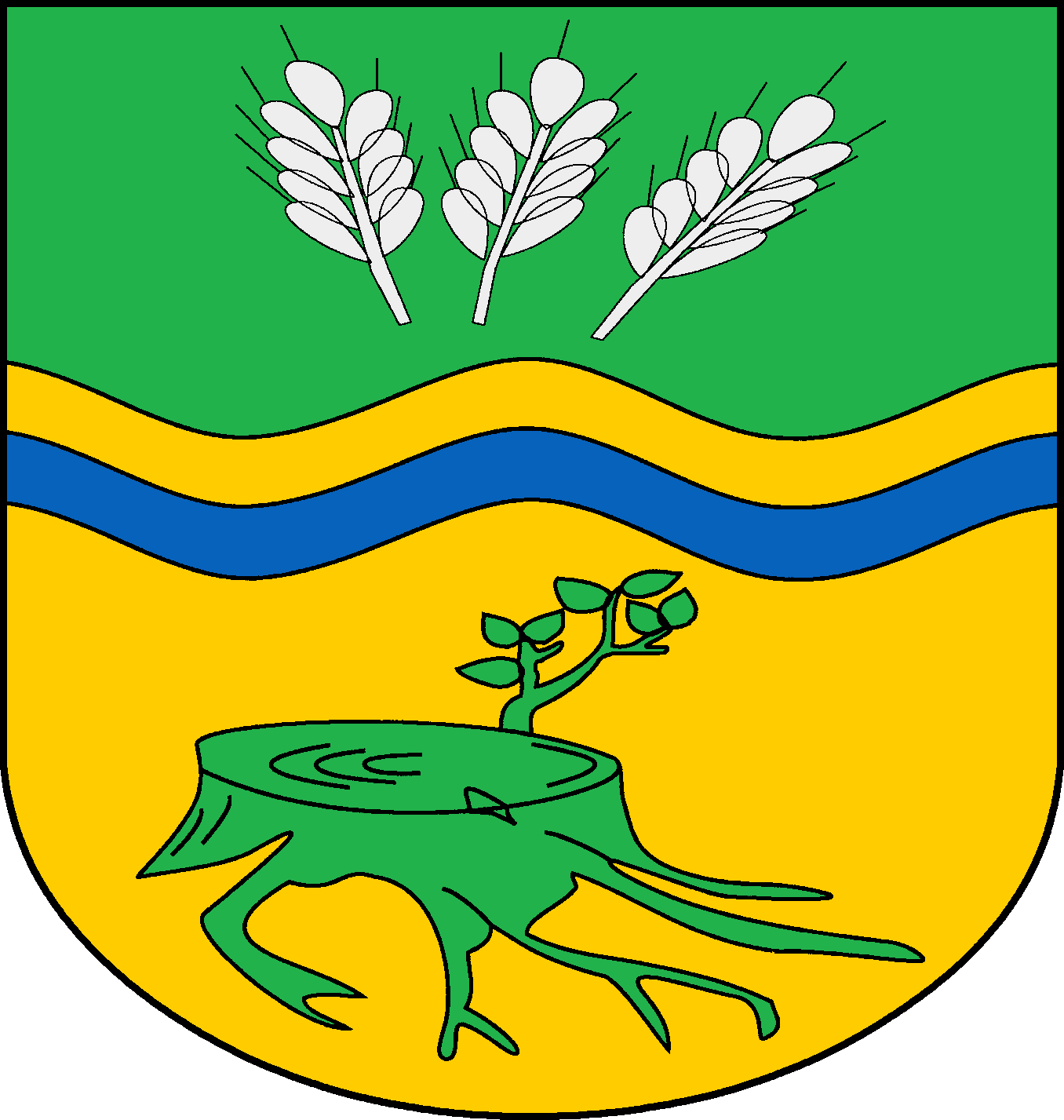 Coat of arms of the municipality Stubben in Schleswig-Holstein, Germany.